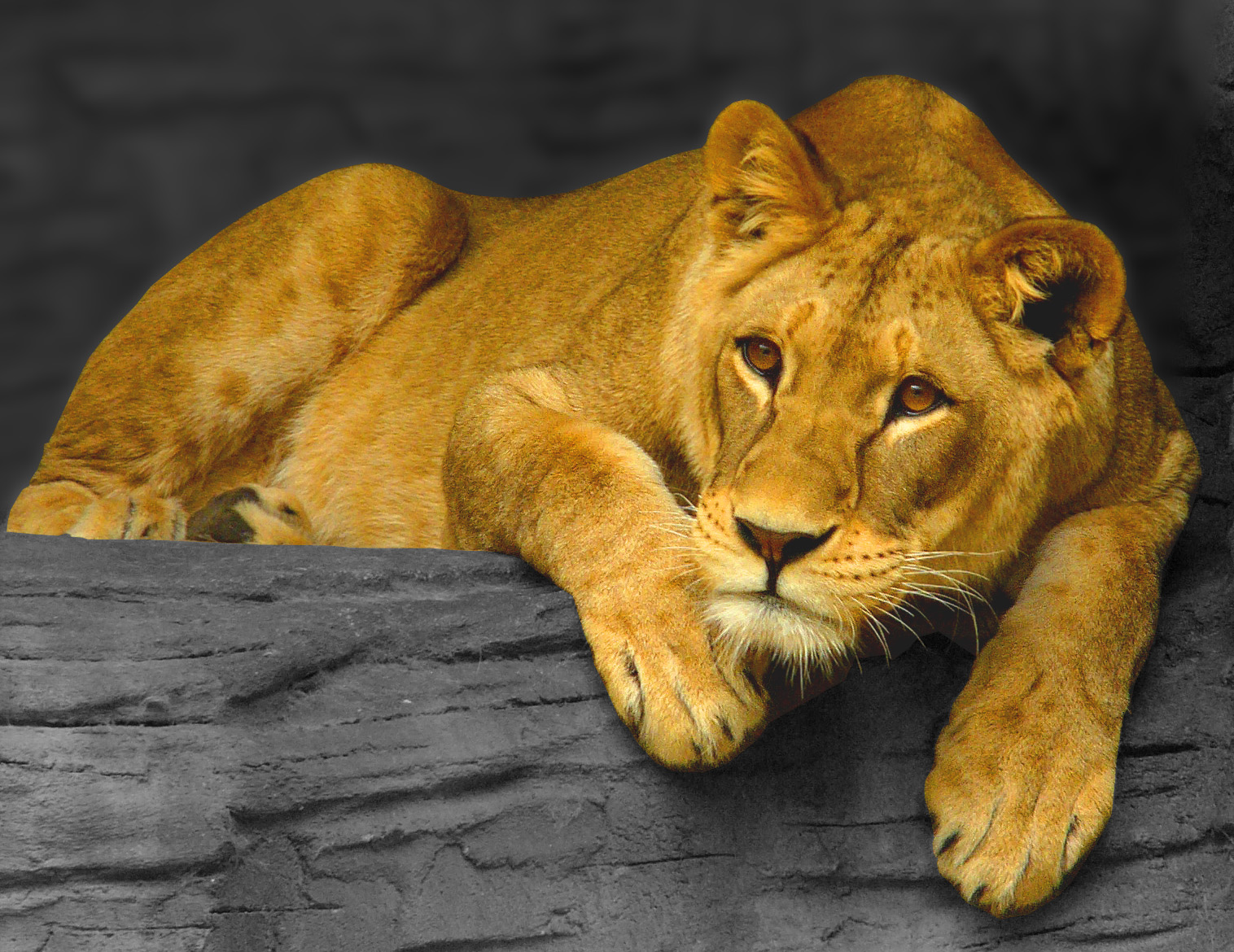 Lioness in the Olomouc Zoo at Svatý kopeček, Czech Republic. This is a retouched picture, which means that it has been digitally altered from its original version. Modifications: selective blurring, selective desaturation, possibly other alterations.